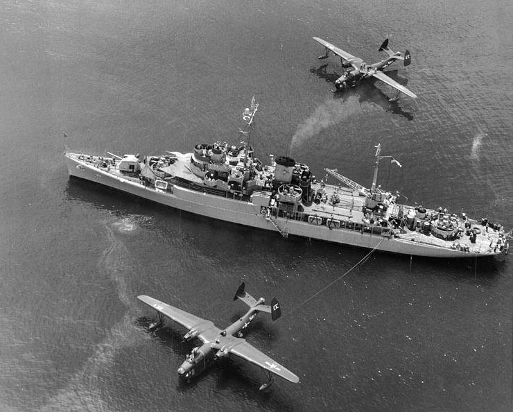 The United States Navy seaplane tender USS Timbalier (AVP-54) with two Martin PBM-3D Mariner flying boats from Patrol Squadron 45 Pelicans in the late 1948. Timbaler´s quadruple 40mm gun mount on the fantail was added in around 1948.